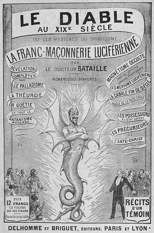 Front cover of the "Devil in the XIX century" book by Leo Taxil. See Taxil hoax